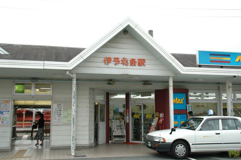 JR Shikoku Yosan Line Iyo-Hojo Station